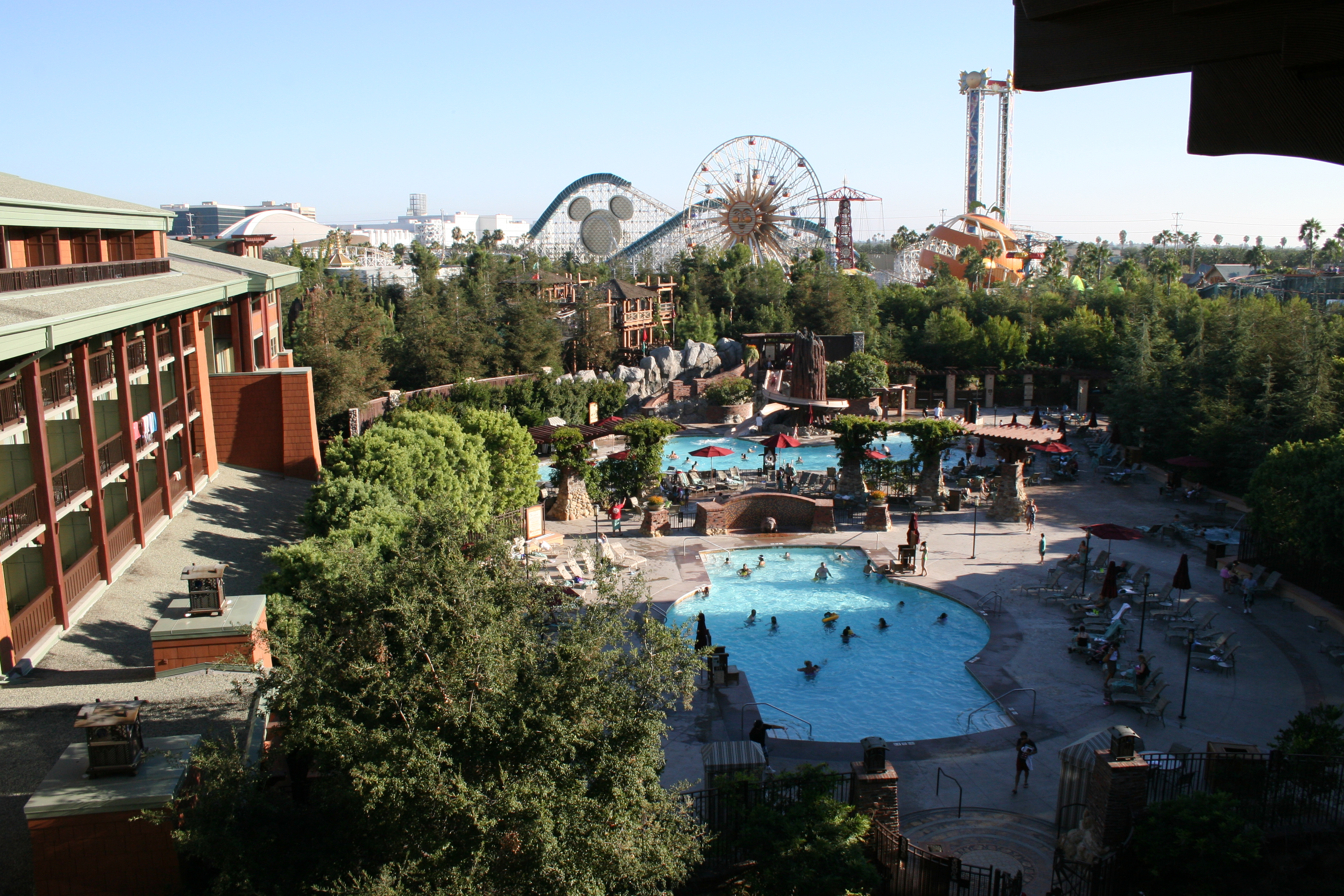 Picture of Disney's Grand Californian Hotel and Disney's California Adventure.